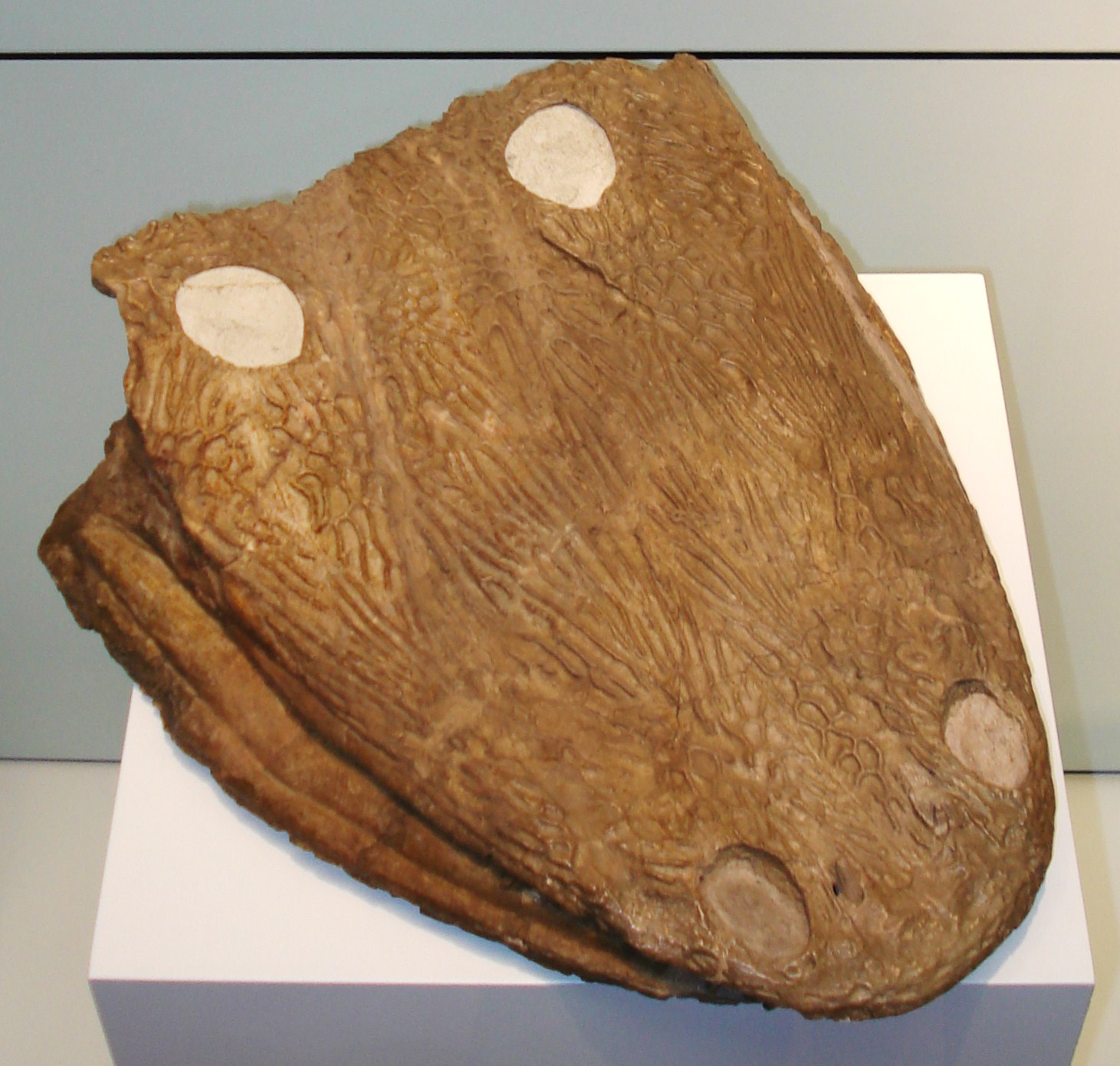 fossil of cyclotosaurus